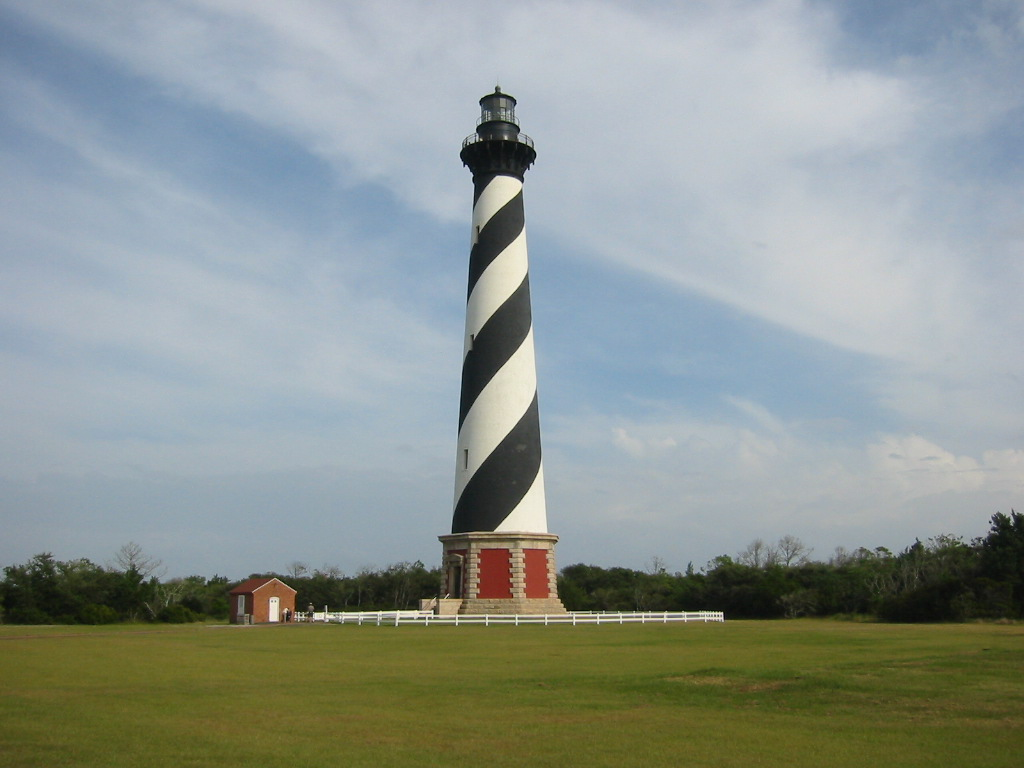 Cape Hatteras Lighthouse, Hatteras, North Carolinam, USA